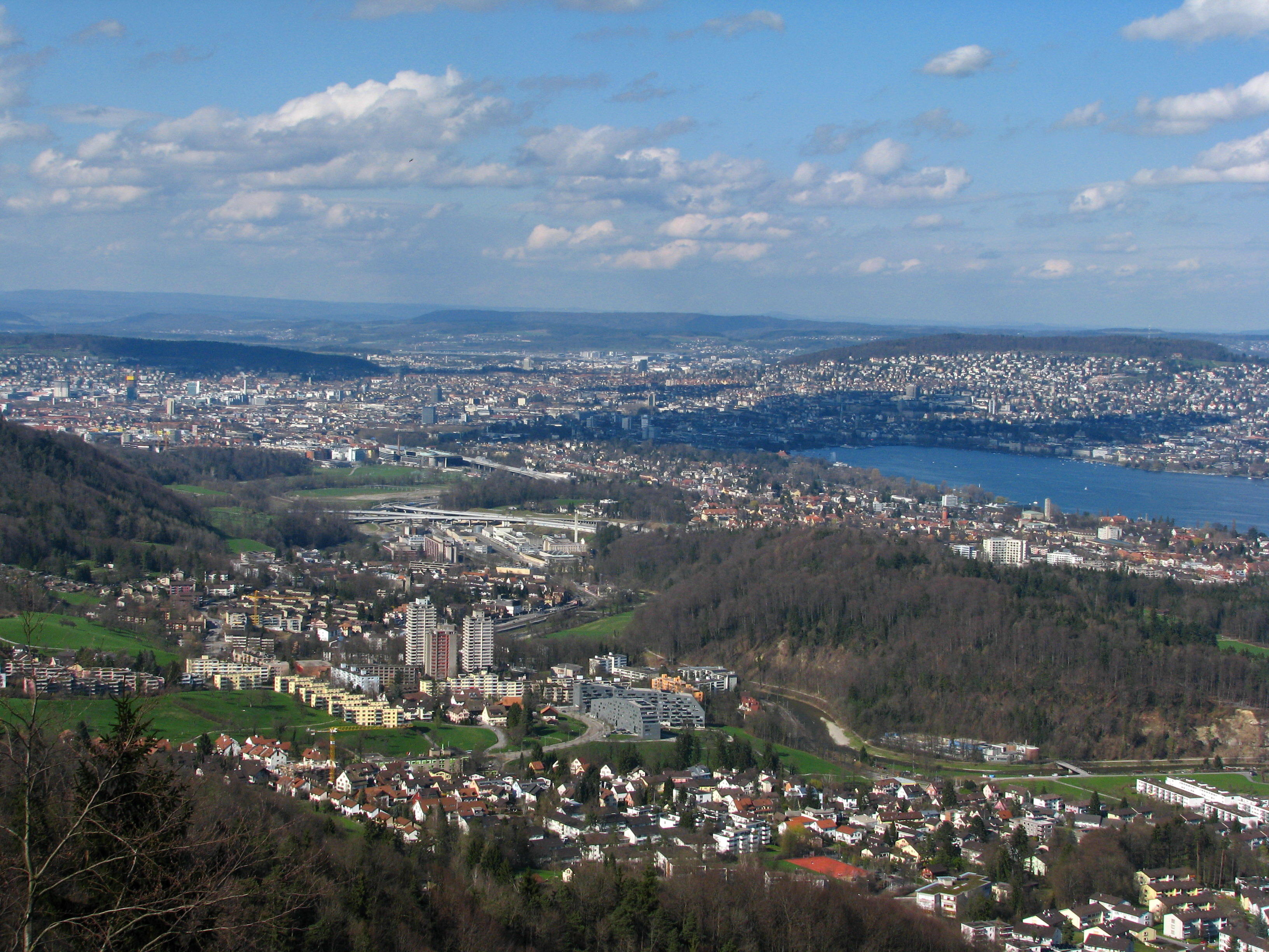 Zürich-Leimbach, lower Sihl valley, inner city and Käferberg (to the left) in the background, as seen from Felsenegg heading to Zürich-Nord.